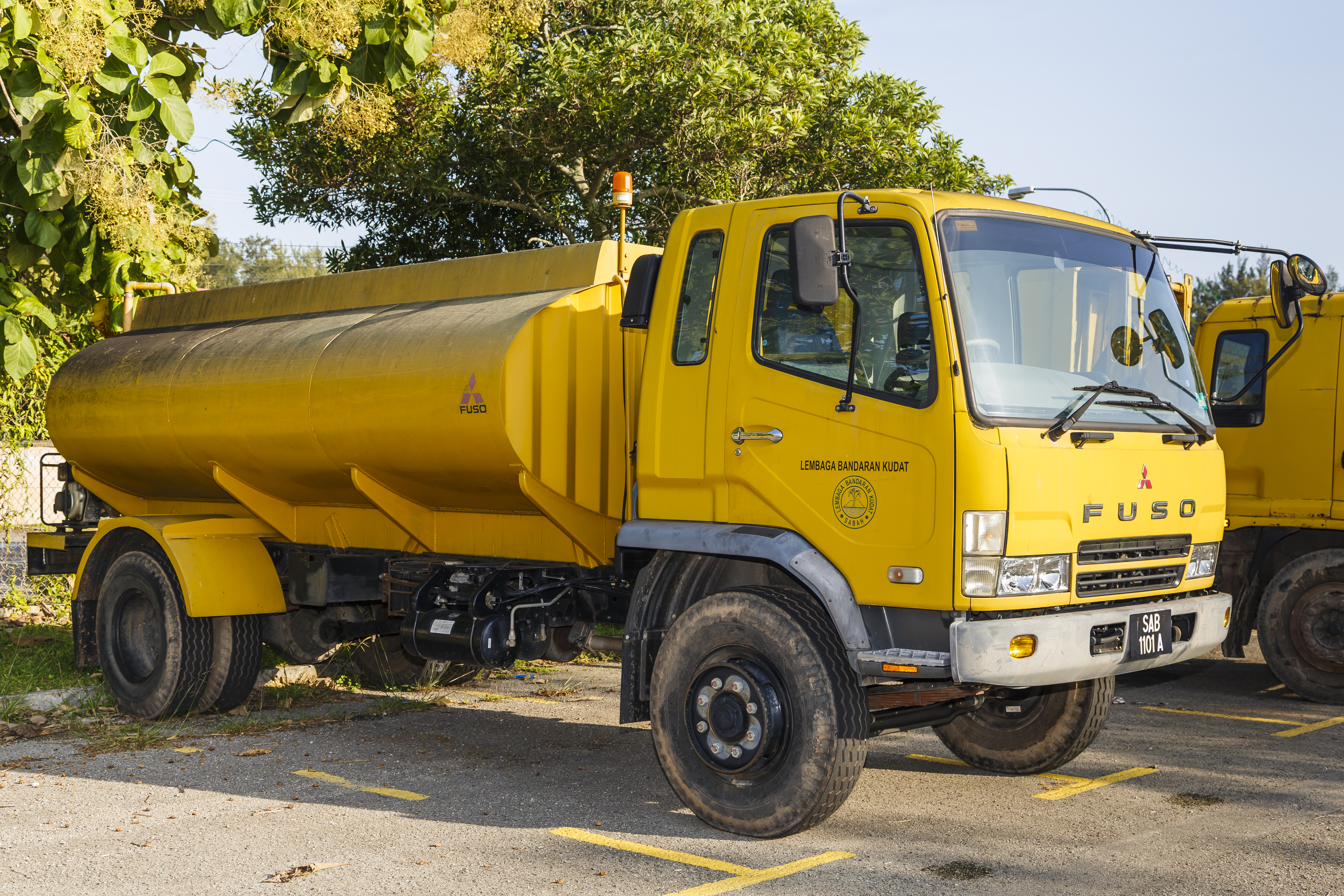 Kudat, Malaysia: A street sprinkling vehicle, model Mitsubishi Fuso Fighter, one of Kudat's municipal vehicles.